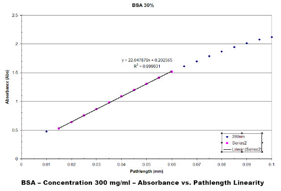 300 mg/ml Slope Measurement